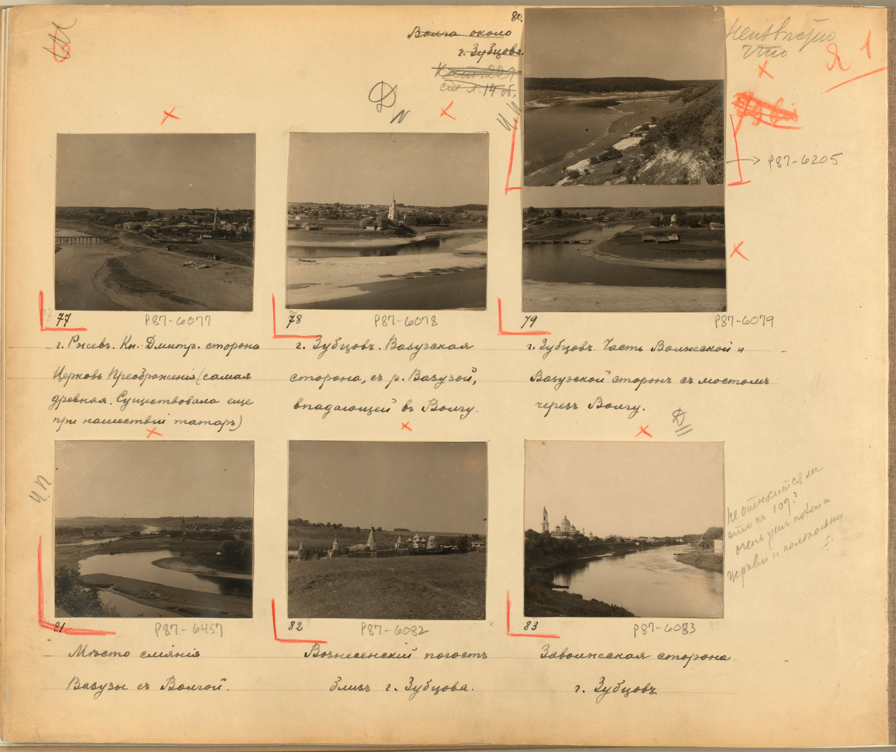 Page #12 of the Prokudin-Gorskii Photo Album Views along the upper Volga River, from its source in the Valdai Hills to Kalyazin, Russian Empire